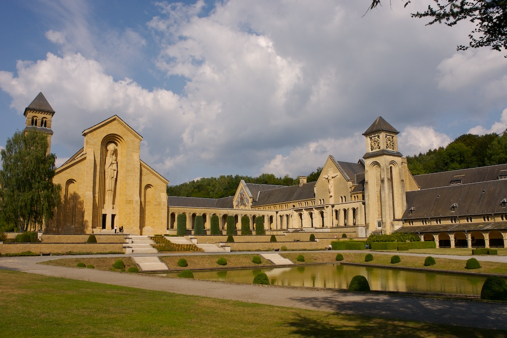 Emmanuel Tychon, Orval Church